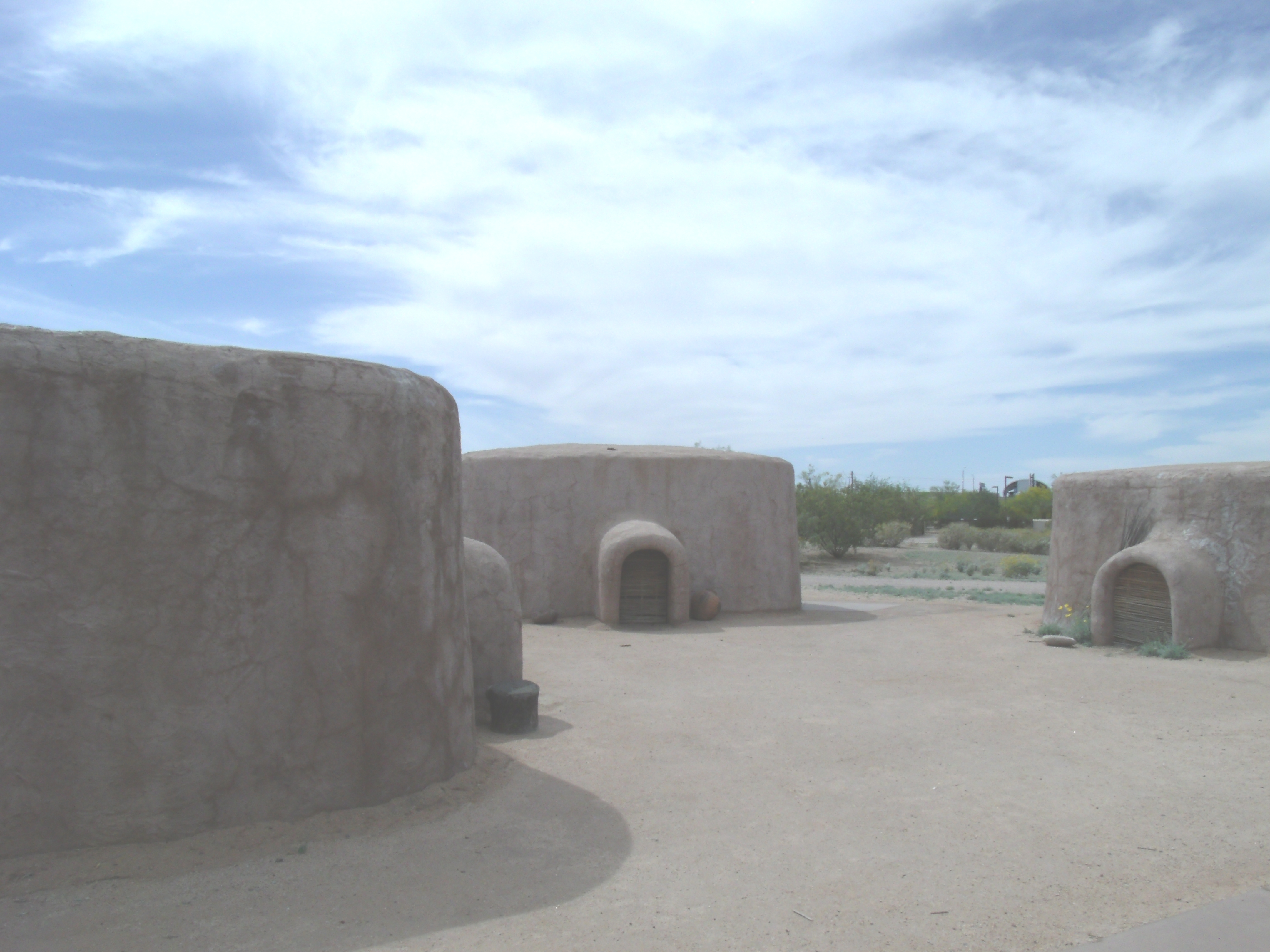 These replicas represent what the Hohokam pit-houses looked like 1000 years ago. The ruins are listed in the National Register of Historic Places reference #66000184.